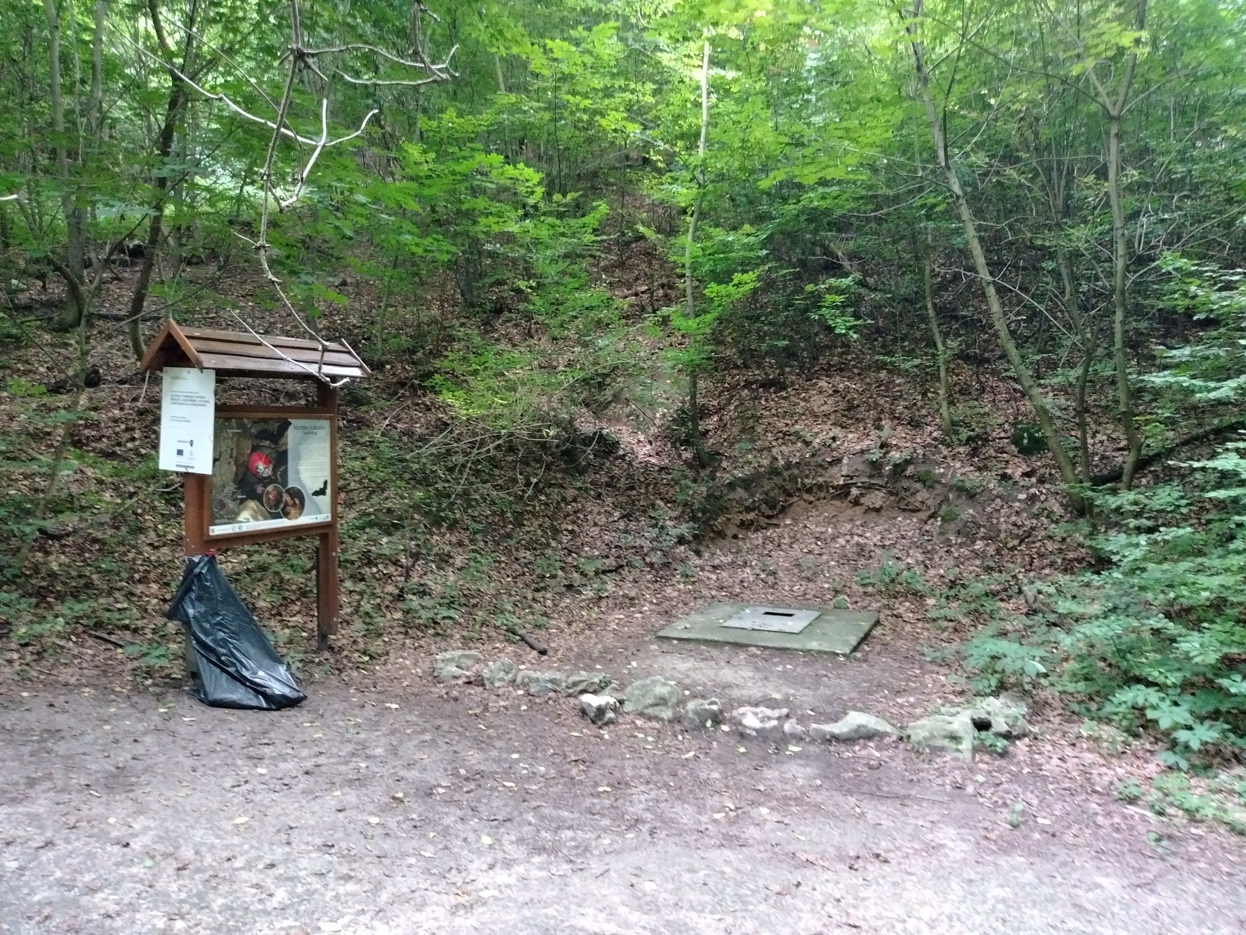 Entrance of Vértes László Cave in Vértesszőlős, Hungary.